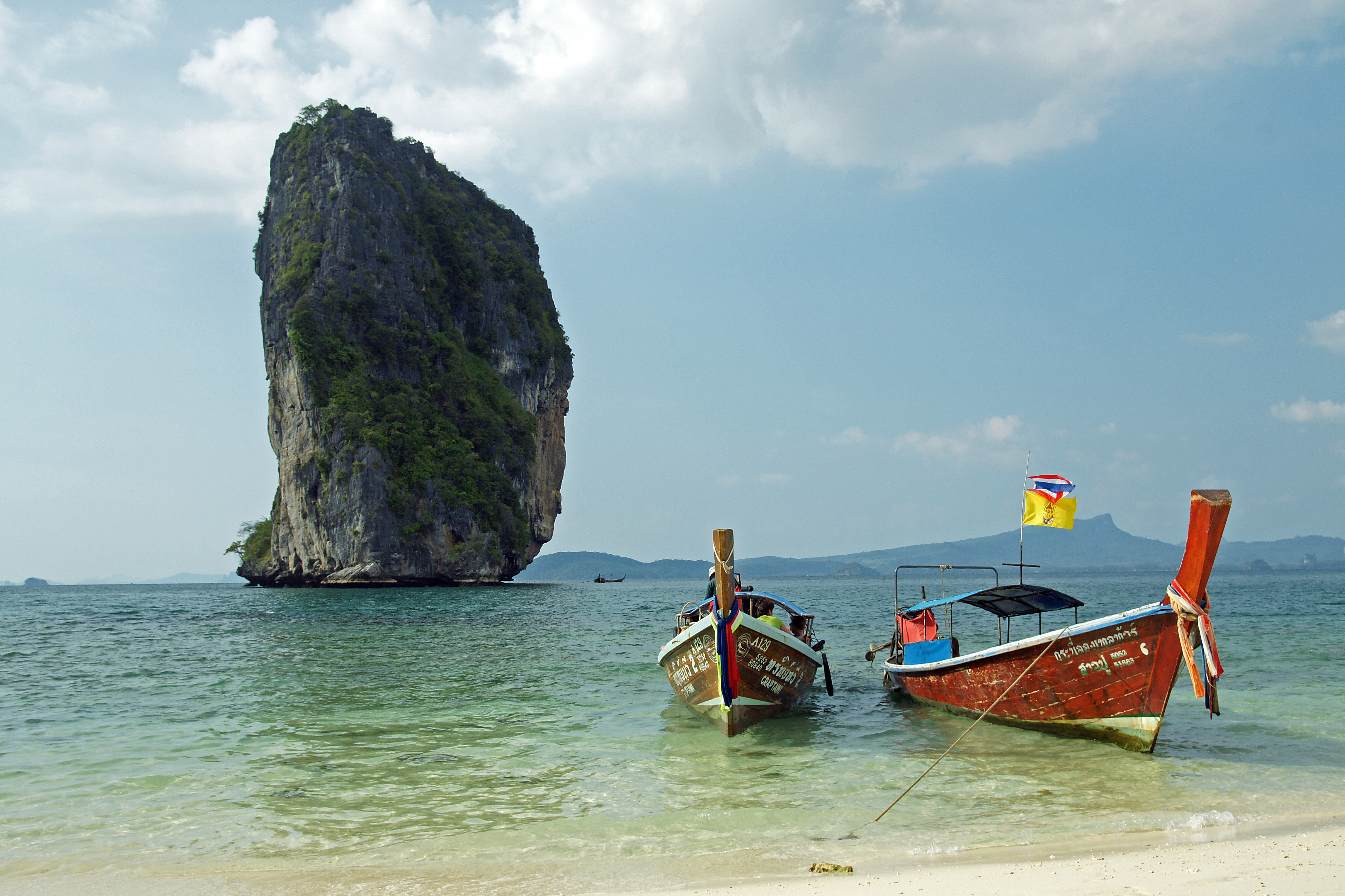 The beach of Poda island with long-tail boats, Krabi, Thailand.